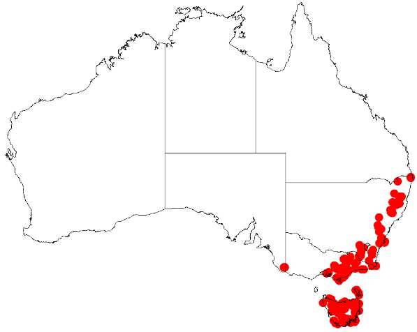 Scaevola hookeri occurrence data downloaded from Australasian Virtual Herbarium 12 May 2019